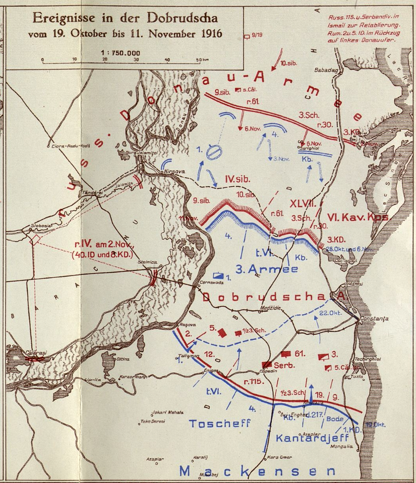 Romanian Front in WWI - The third phase of the battles from Dobrogea, october-november 1916